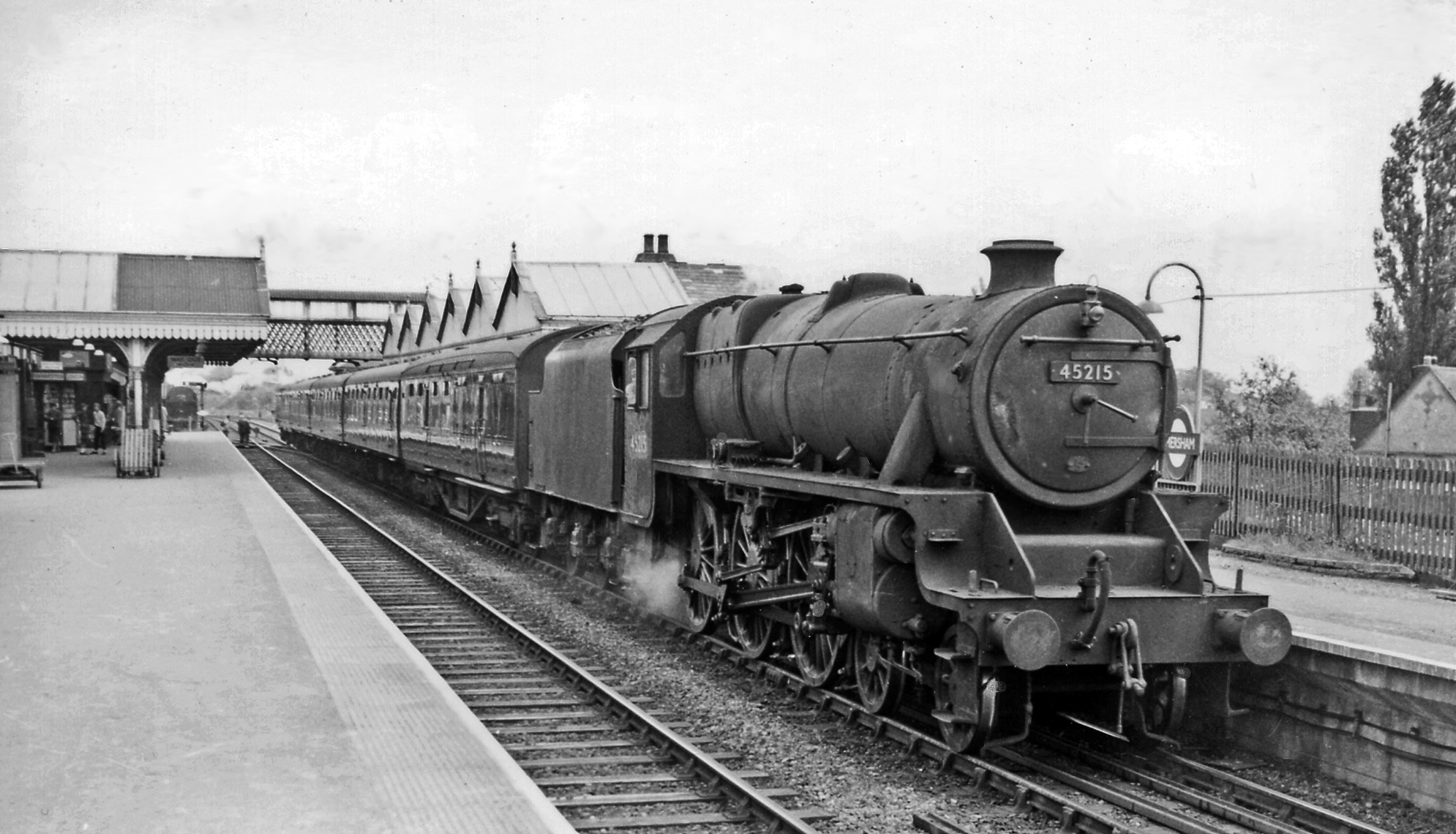 Marylebone - Woodford Halse stopping train at Amersham. View eastward, towards London: ex-Metropolitan & Great Central Joint line, Baker Street - Aylesbury by Met., Marylebone - Leicester - Sheffield by GC. The ex-GC 'London Extension' main line had been taken over by the LMR in 1958 and was rapidly run down, to be closed entirely in 1966: meanwhile ex-LMS motive-power was substituted for ex-LNER locomotives. Here ex-LMS Stanier 5MT 4-6-0 No. 45215 (built 1935, withdrawn 10/67) is working the 13.30 stopping-train from Marylebone, which at that time called at several LT stations including Amersham. The station has typical Metropolitan architecture and of course London Transport nameboards.